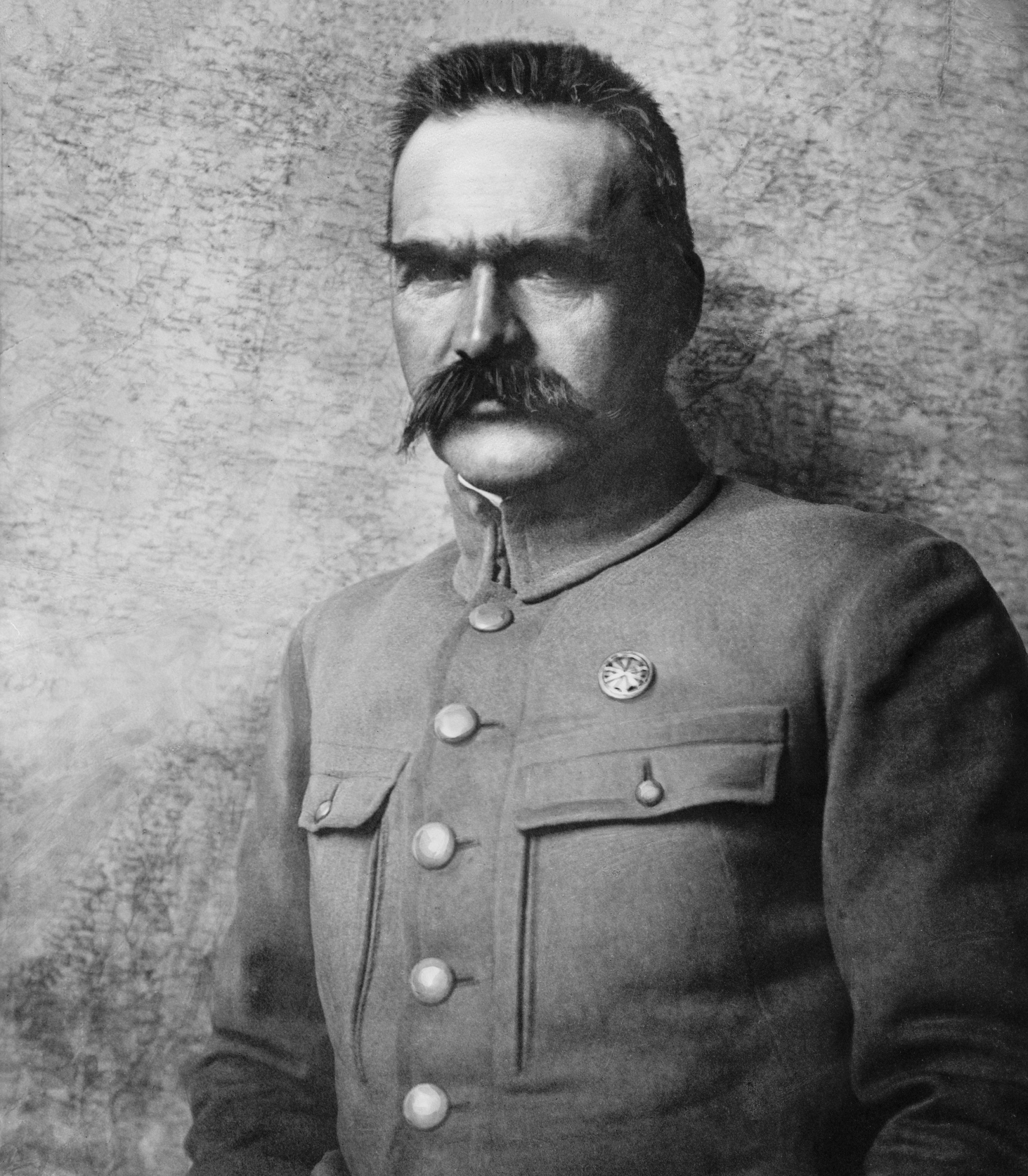 Józef Piłsudski between 1910 and 1920.